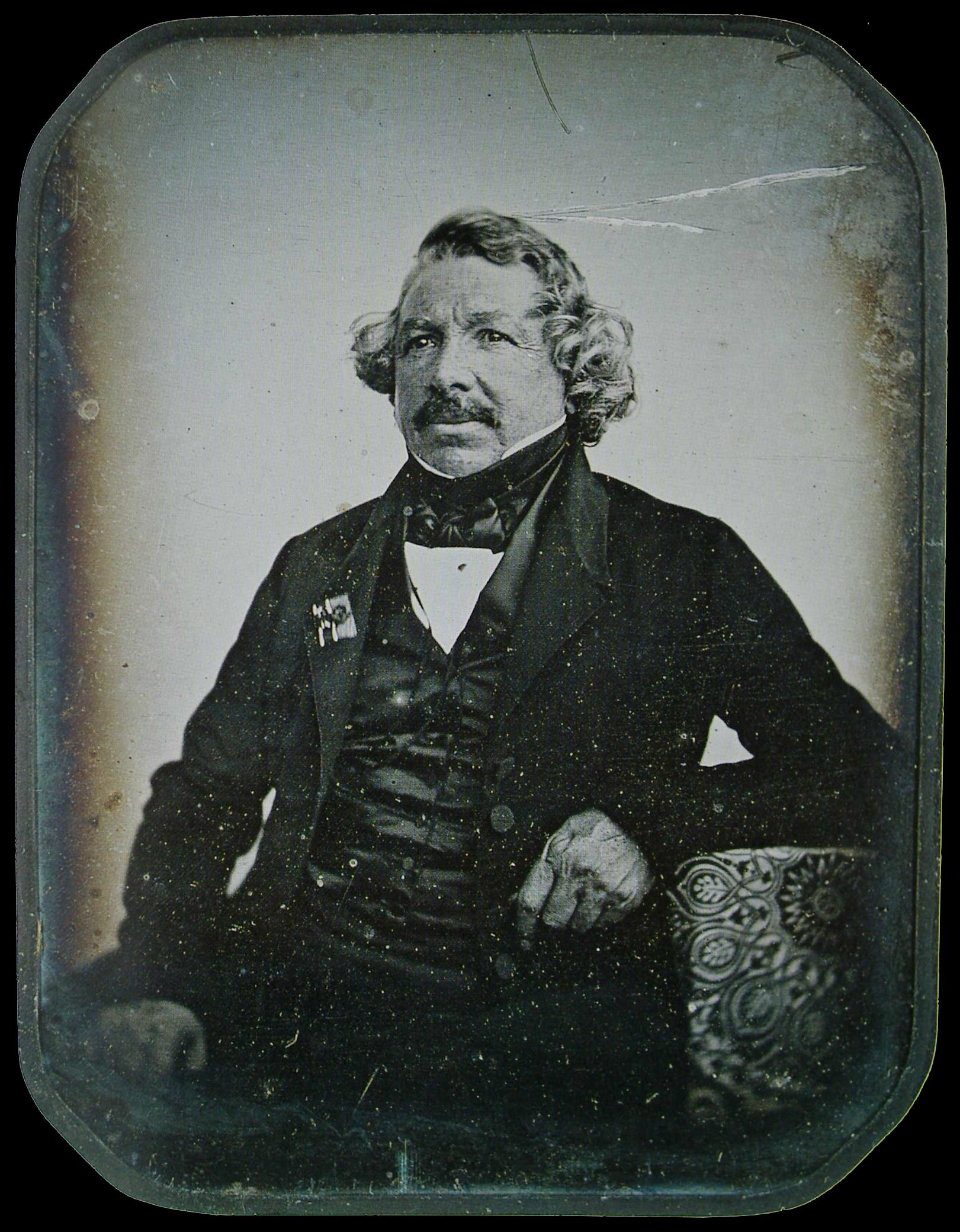 Portrait of Louis Daguerre (1787-1851)